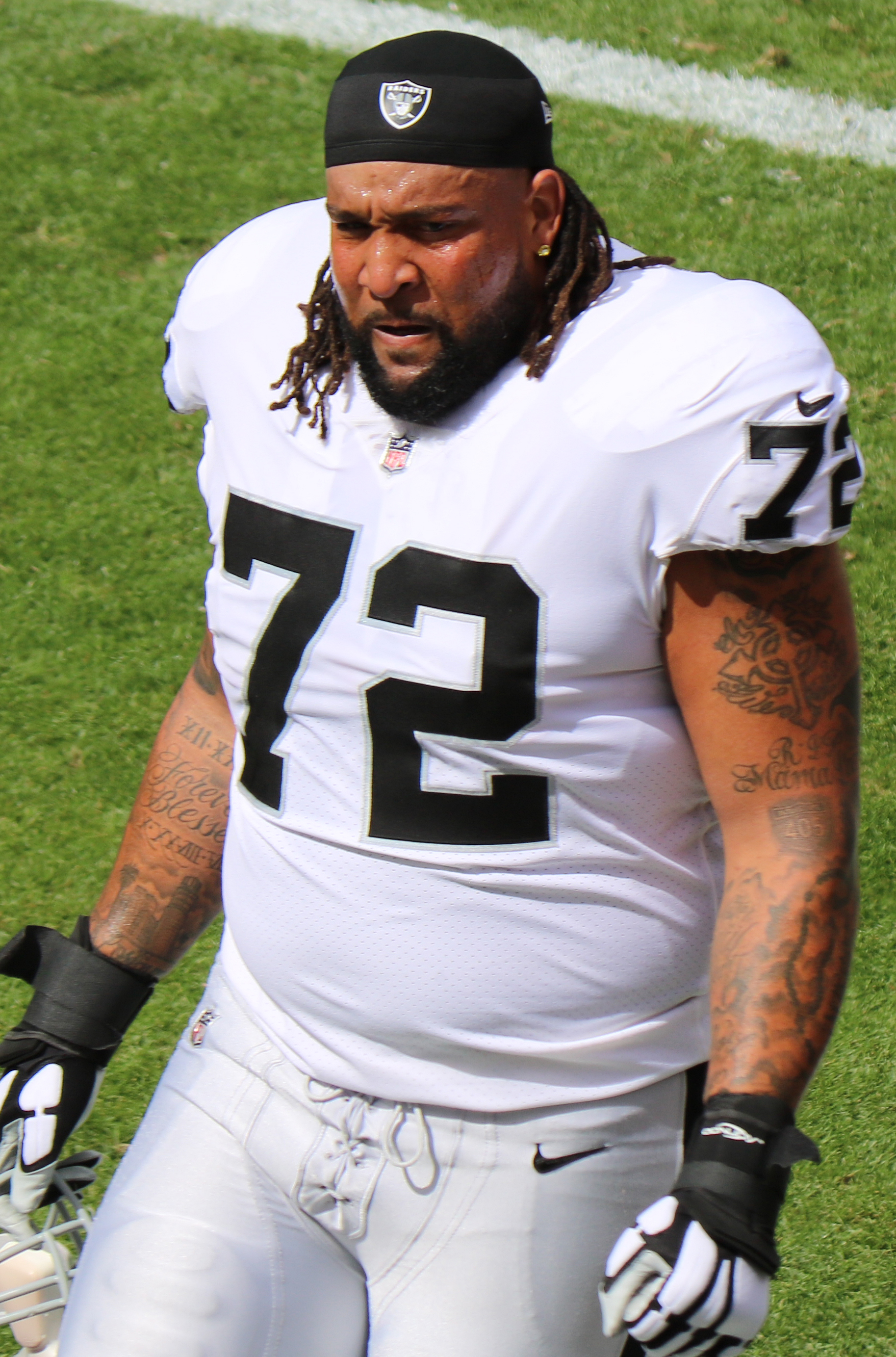 Donald Penn, a player on the National Football League.